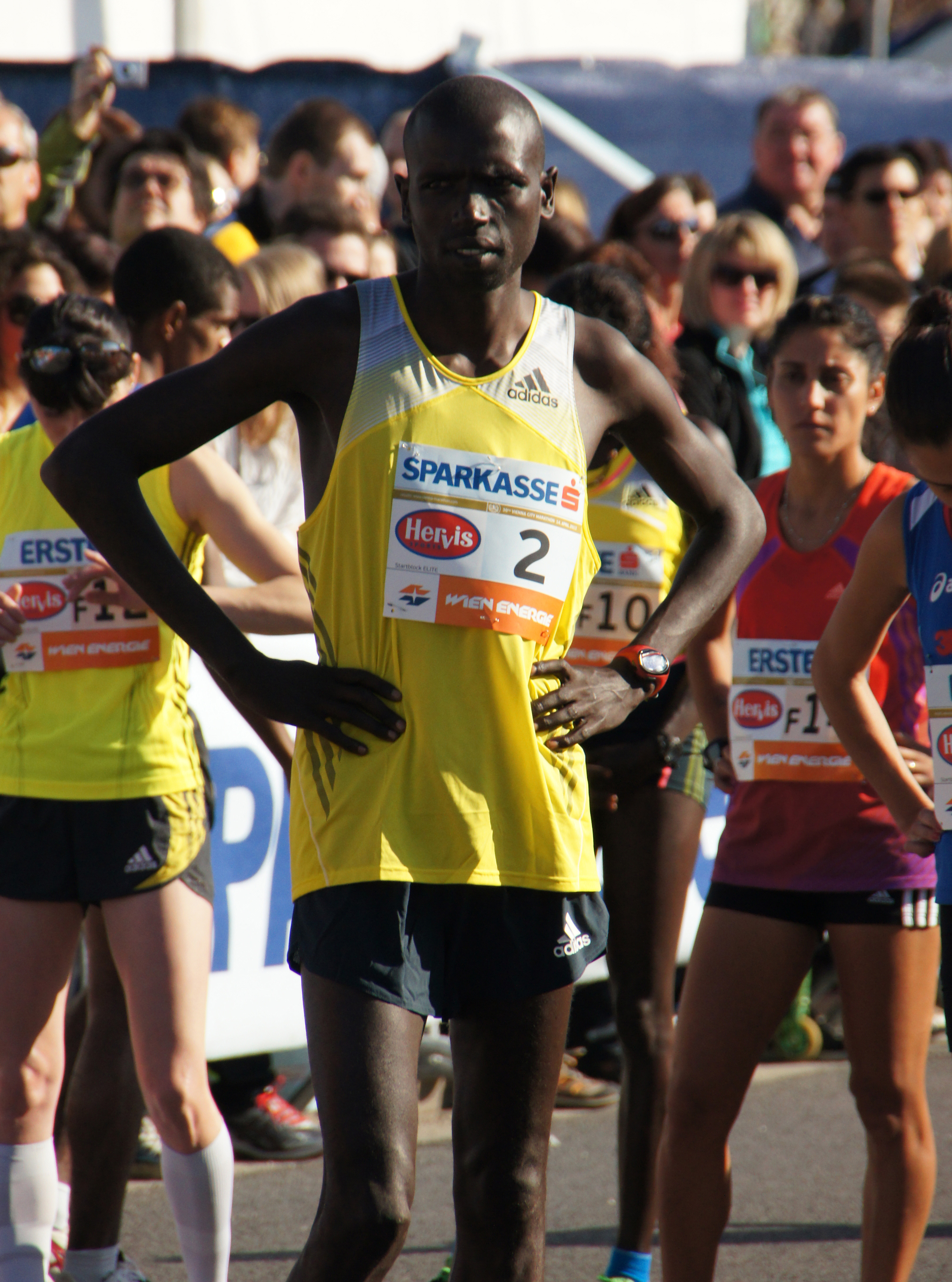 Vienna 2013-04-14 Vienna City Marathon - 2 Jafred Chirchir Kipchumba, KEN, preparing for race